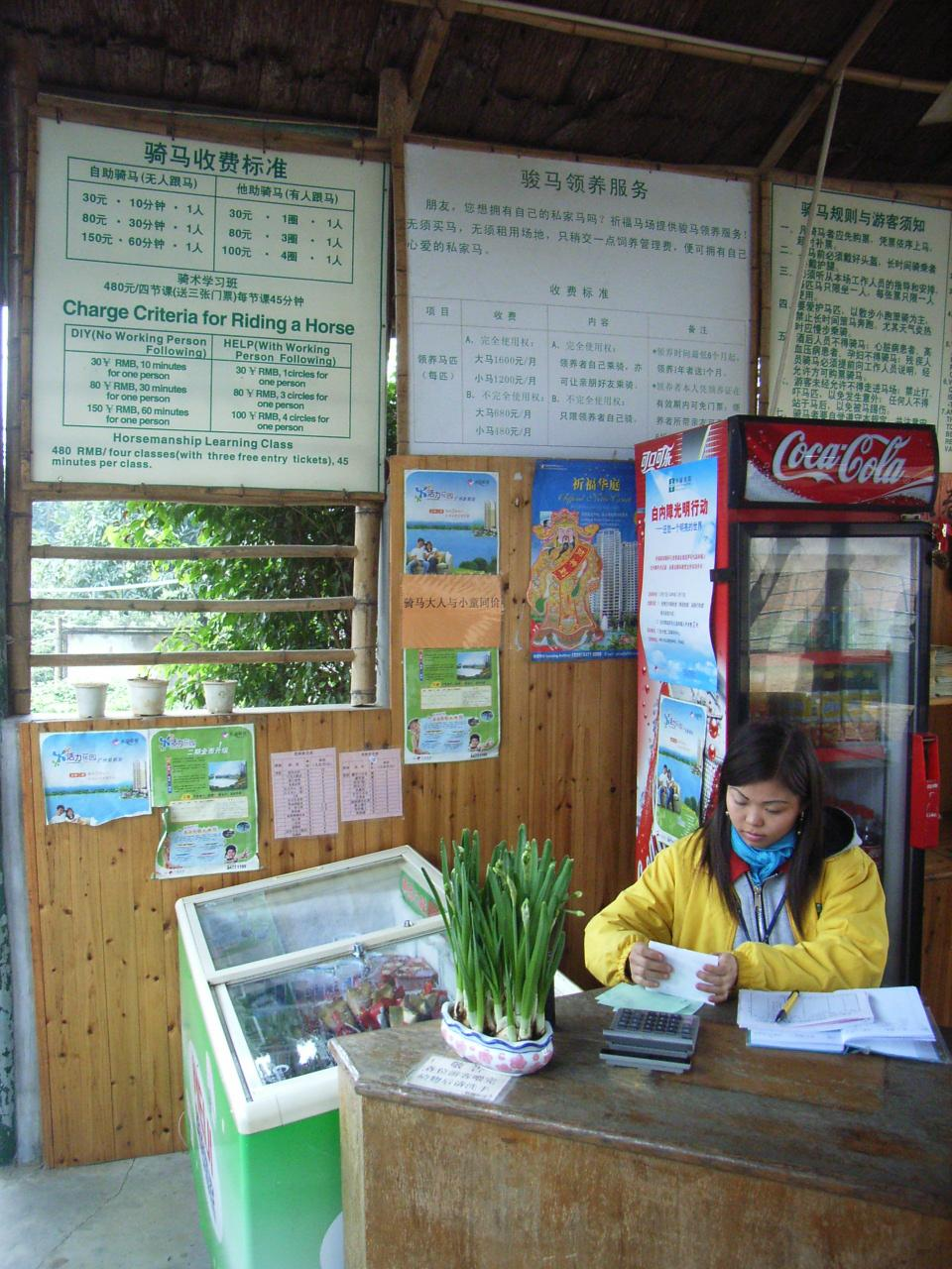 廣州番禺zh:祈福新邨農莊(女文員)